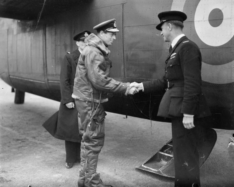 Royal Air Force Ferry Command, 1941-1943. The Duke of Kent shakes hands with a BOAC pilot as he prepares to board Consolidated Liberator Mark I, AM261, of Ferry Command, for his journey from Prestwick, Scotland, to Canada. This was the first occasion on which a member of the Royal Family crossed the Atlantic by aircraft.